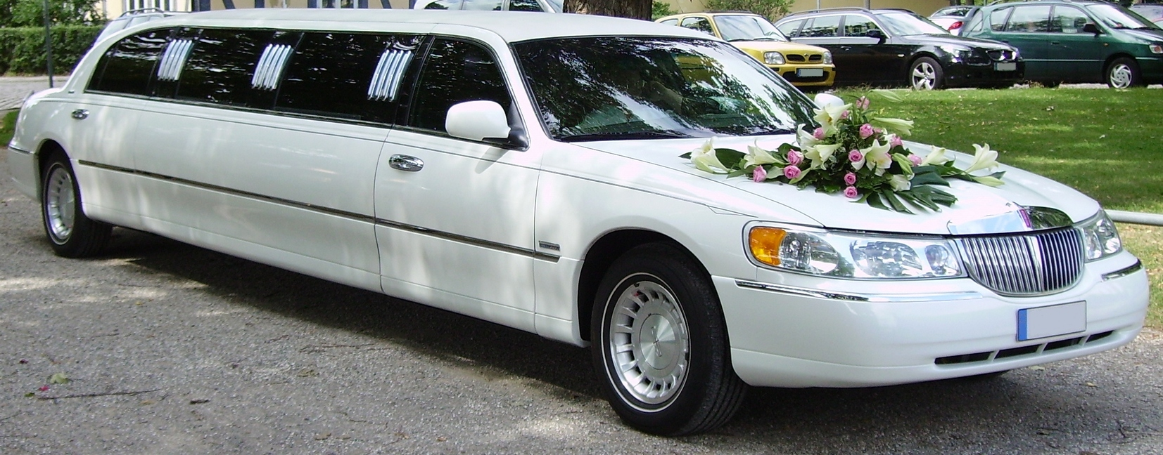 A Lincoln Town Car limousine as a vehicle for wedding transport